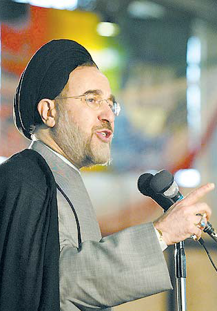 Mohammad Khatami - November 19, 2003 - Laylat al-Qadr speech in Mausoleum of Ruhollah Khomeini